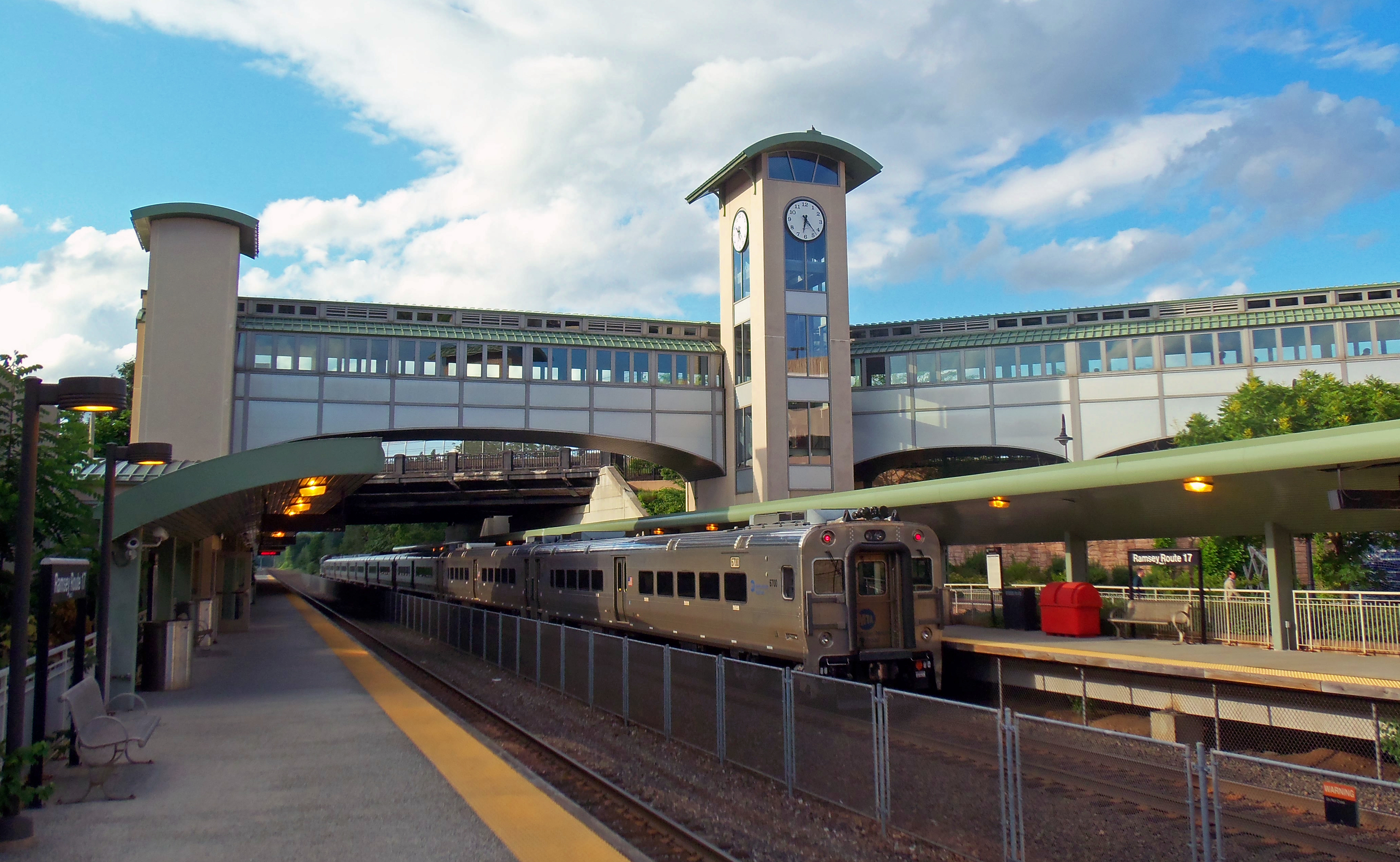 View of westbound NJ Transit Main Line train departing from Ramsey Route 17 station eastbound platform.